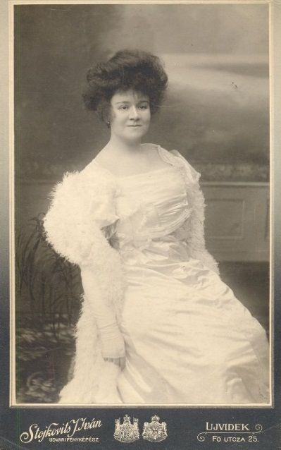 Serbian actress Milka Marković (1869–1930) - Photo Studio of Ivan Stojković, Novi Sad, around 1900. From the archives of City Museum of Novi Sad, Serbia